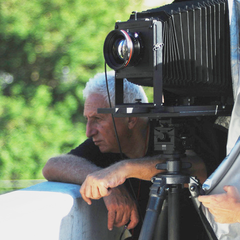 Massimo Vitali at work in Rio by Roberta Rossetto